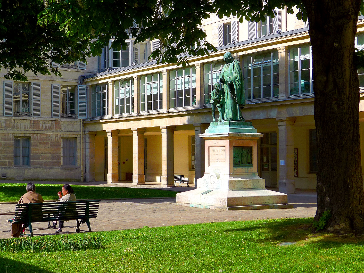 Saint-Jacques street - Paris